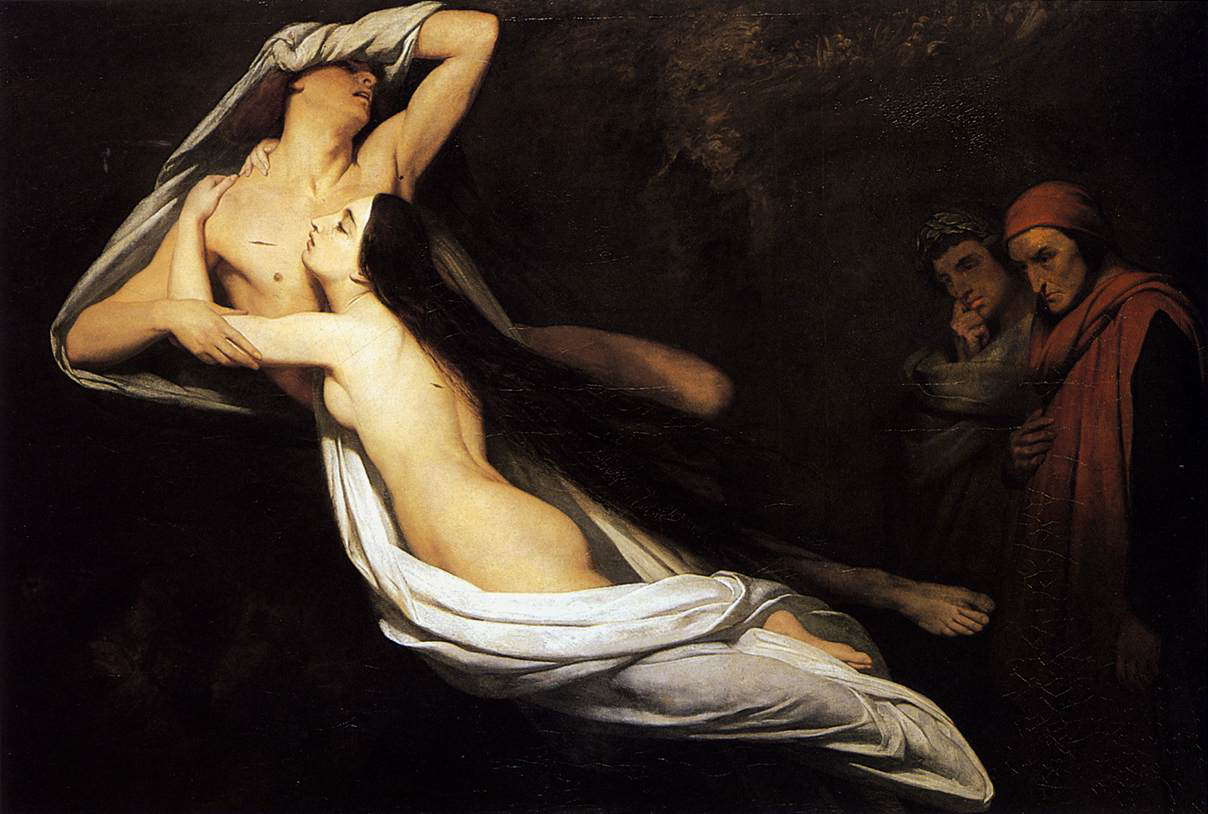 Original Version for the Duc d'Orléans